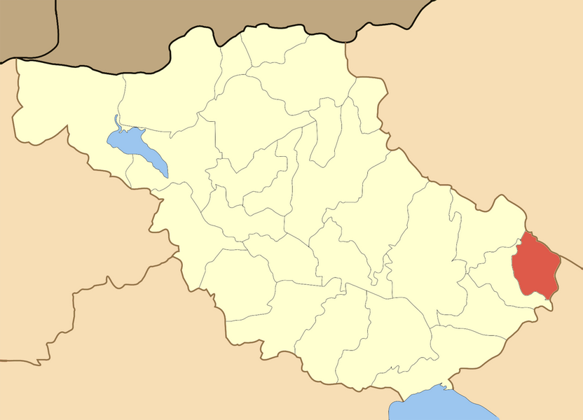 Locator map of Kormistas municipality in Serres perfecture in Greece.